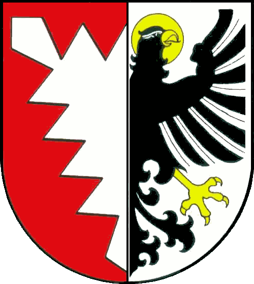 Coat of arms of the municipality Grömitz in Schleswig-Holstein, Germany.